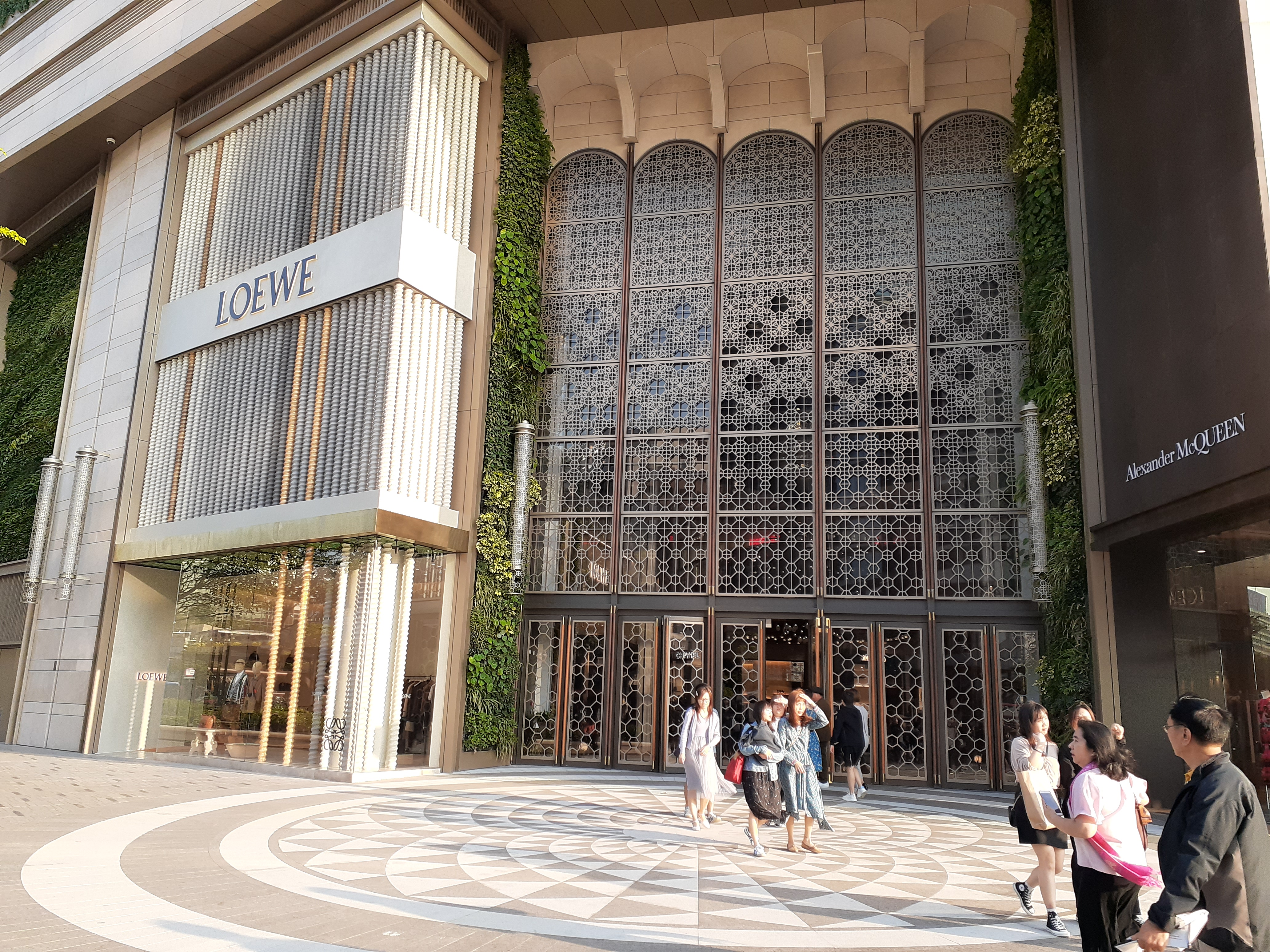 HK 尖沙咀 TST 人文藝術購物館 K11 MUSEA mall shop in November 2019